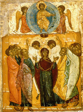 The Ascension of Our Lord